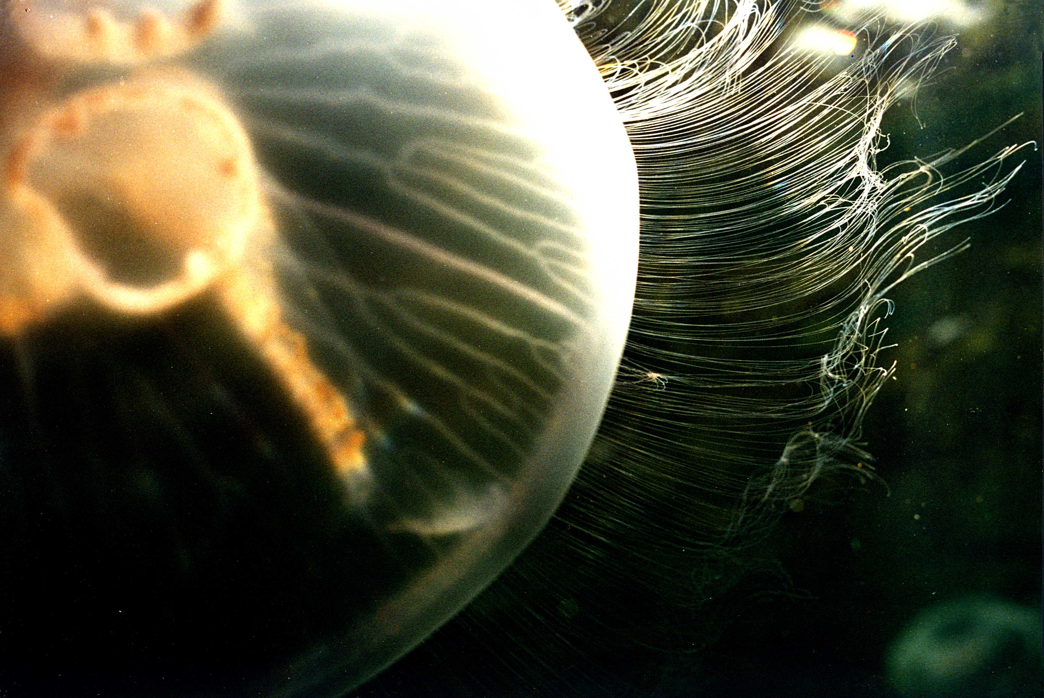 aurelia image uwe kils gfdl self